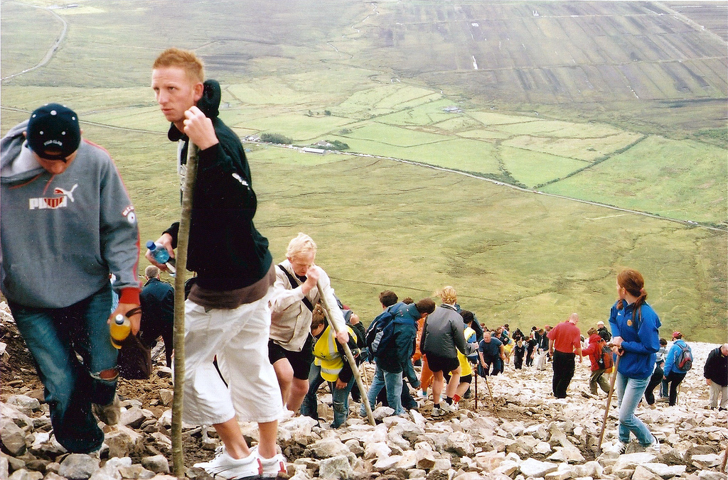 Croagh Patrick Pilgrim Sunday Last Sunday in July is Pilgrim Sunday. Many are helped along by the genuine St Patrick walking stick which is for sale at the car park.